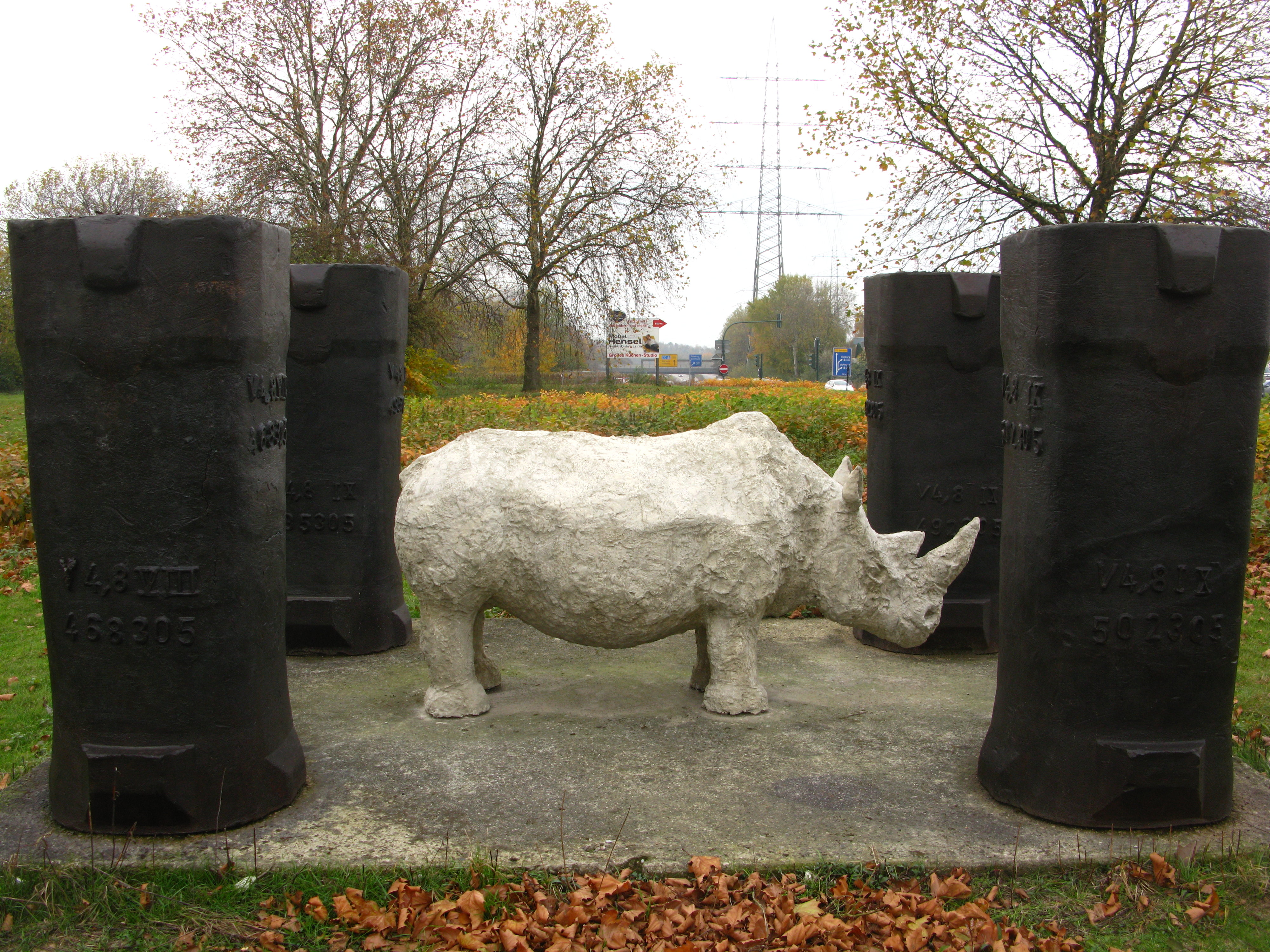 Sculpture "Nashorn-Tempel" (= Rhino-Temple) of 1988 by Johannes Brus; cast concrete with steel enforcement, 4 die-casts, concrete base; after restoring in Sep 2013 (and subsequent slight darkening of the surface); location: 20 m west of Gladbecker Straße, 50 m south of crossing with Johanniskirchstraße; Essen, Germany; coord 51 29 51.58 N 06 59 42.92 E